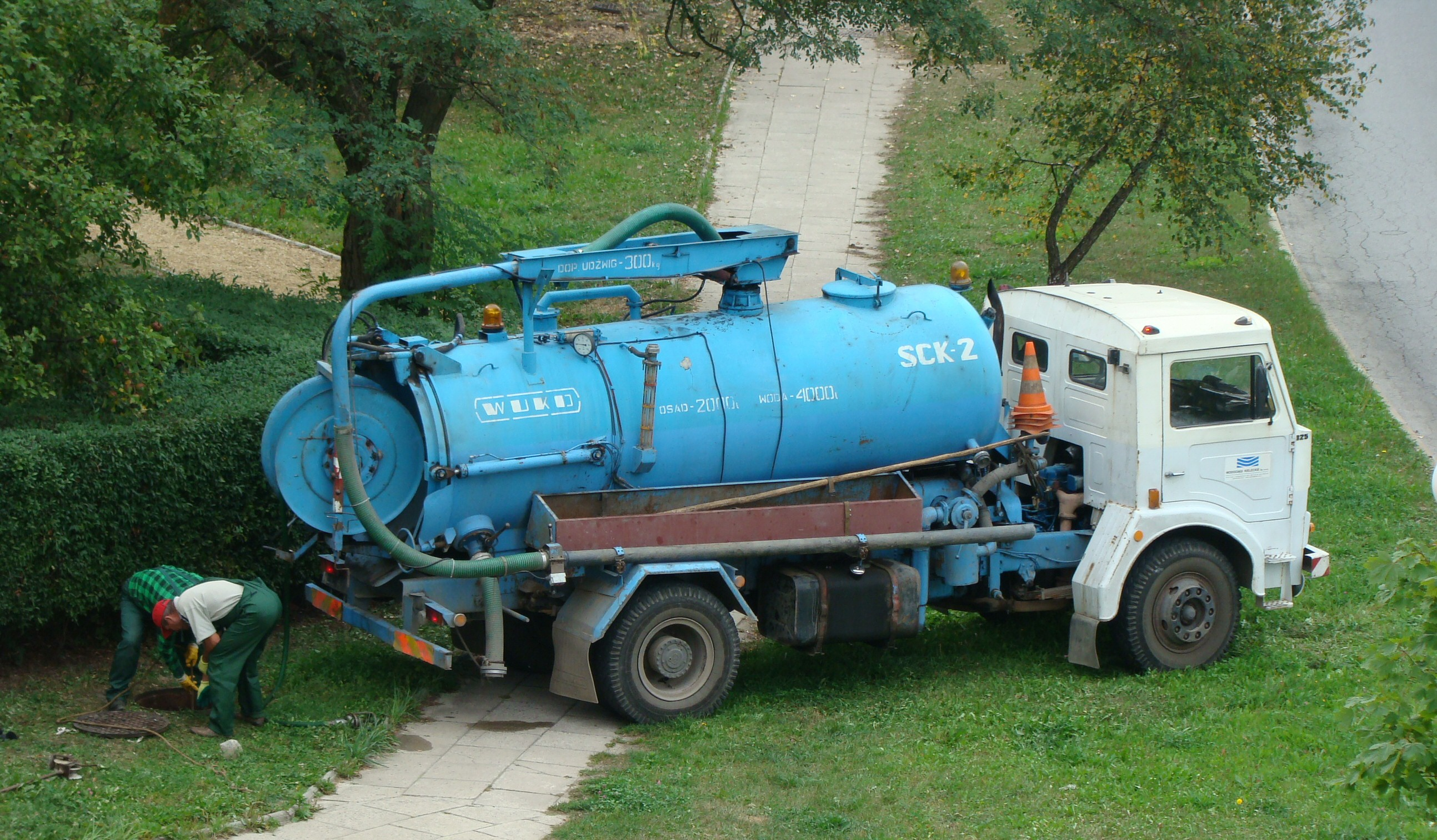 Jelcz 325 SCK-2 WUKO, Kielce, Poland